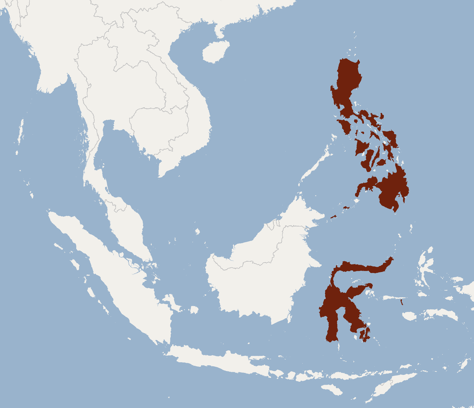 Geographical distribution of Cheiromeles parvidens according to IUCNRedlist